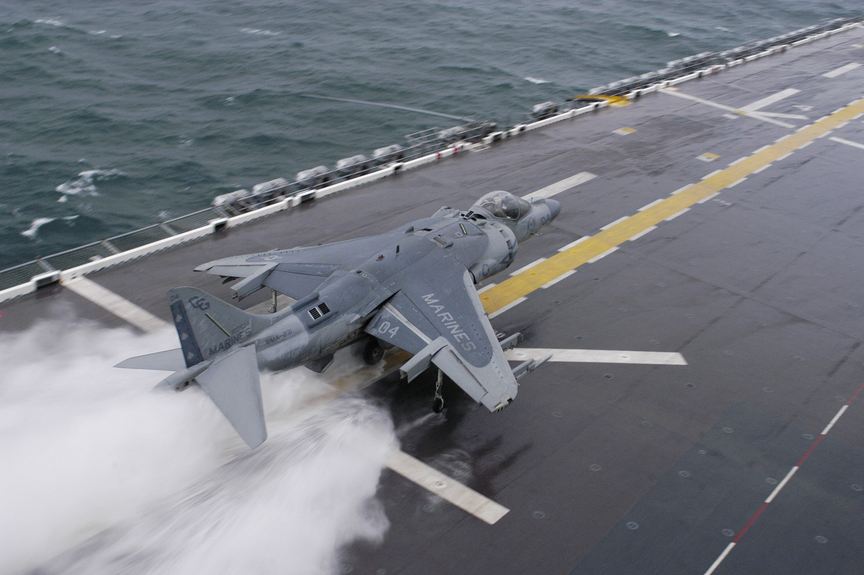 Atlantic Ocean (Nov. 7, 2006) - An AV-8B Harrier assigned to Marine Attack Squadron Two Three One (VMA-231) launches from the flight deck of amphibious assault ship USS Bataan (LHD 5). The Bataan Expeditionary Strike Group is conducting a Composite Training Unit Exercise (COMPTUEX) off the Atlantic coast with the 26th Marine Expeditionary Unit, based out of Camp Lejeune, N.C., prior to an upcoming regularly scheduled deployment. U.S. Navy photo by Mass Communication Specialist 3rd Class Jeremy L. Grisham (RELEASED)